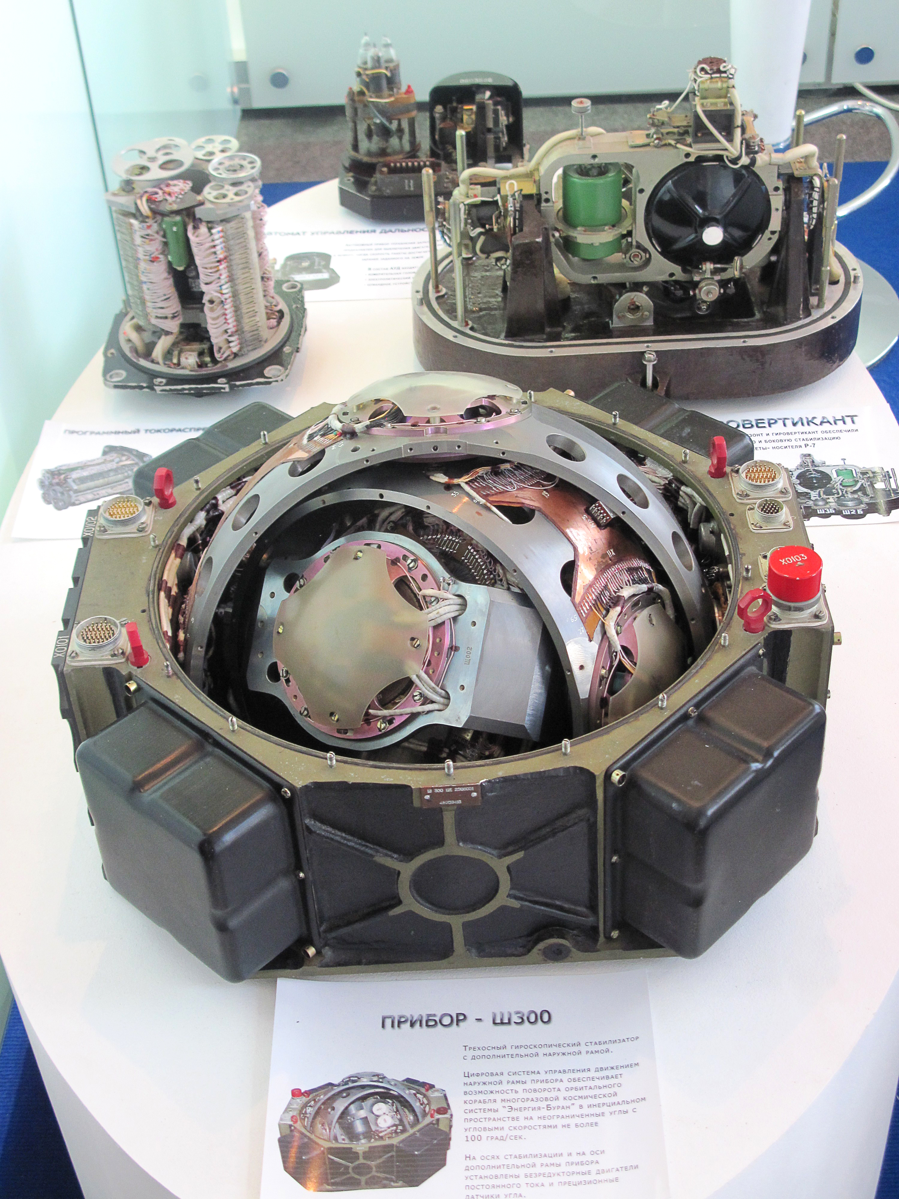 Bottom: The SH-300 three-axis gyro controller with additional digitally-controlled external frame. Used on the Buran orbiter for precise rotation at a rate of up to 100 degrees/second. Middle right: R-7 rocket gyroscopic vertical flight controller.